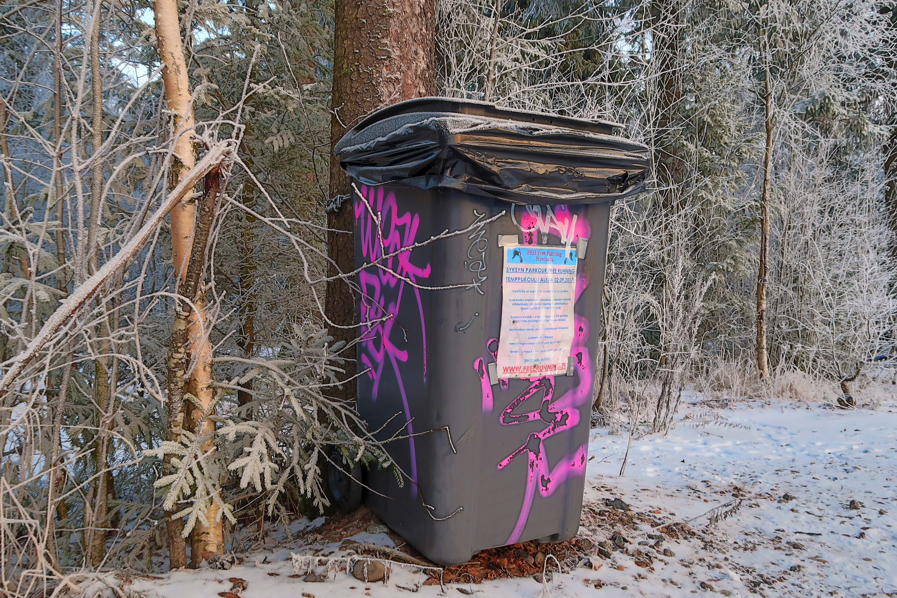 Trash bin between forest and skatepark. (Hyvinkää, Finland)